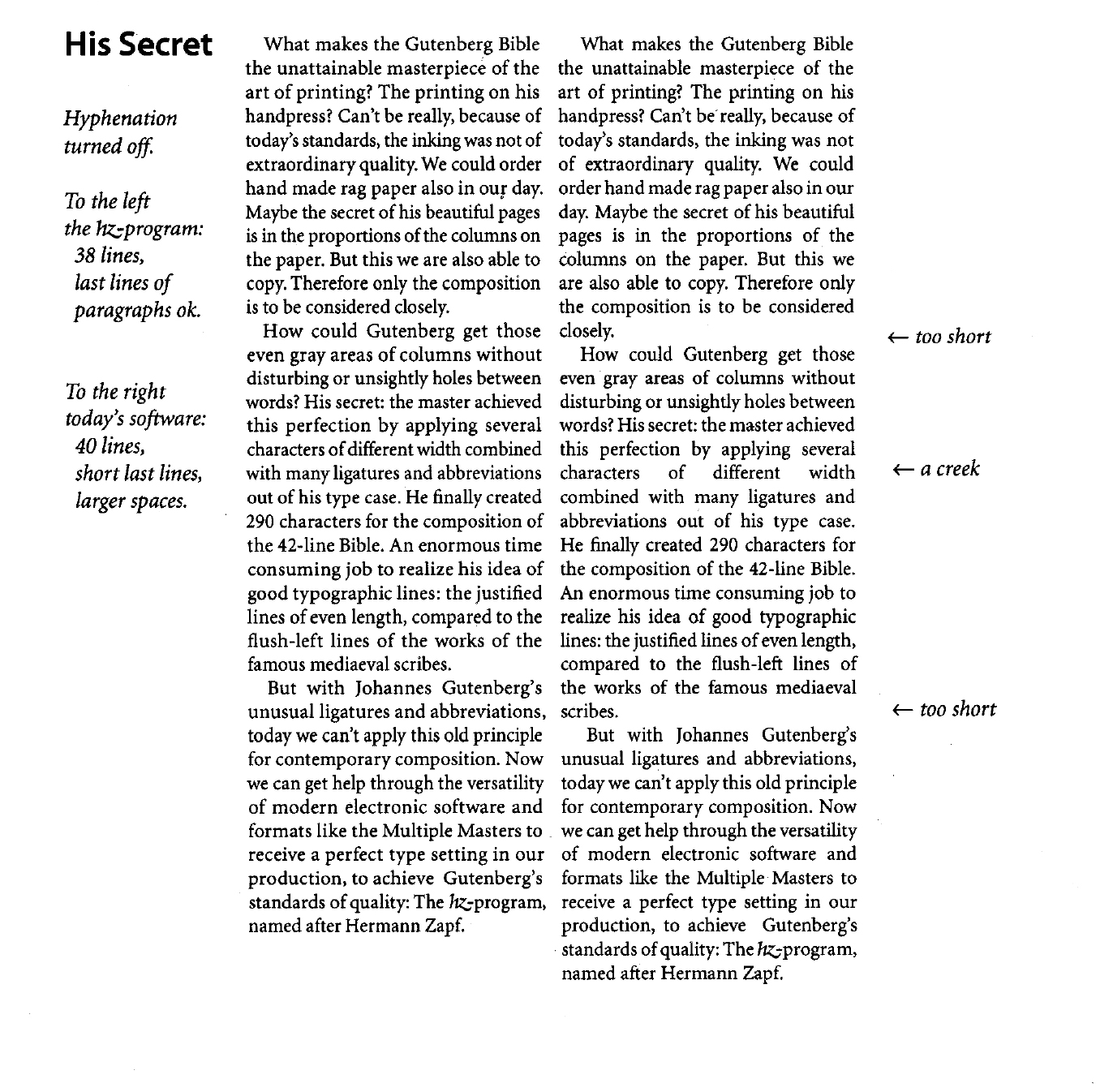 hz programme